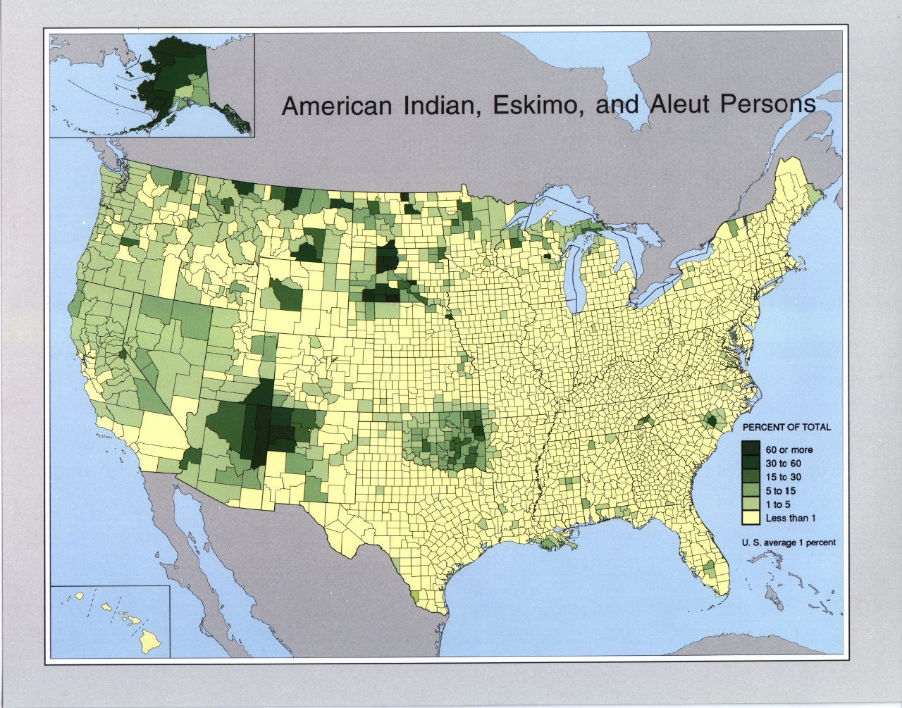 Race and Hispanic Origin Population Density of the United States: 1990 (by County as a Percentage of Total Population) Original map is displayed in four distinct color schemes on one sheet which measures 19" x 22". American Indian, Eskimo, and Aleut Persons See also: Asian and Pacific Islander Persons Black Persons Hispanic Origin Persons